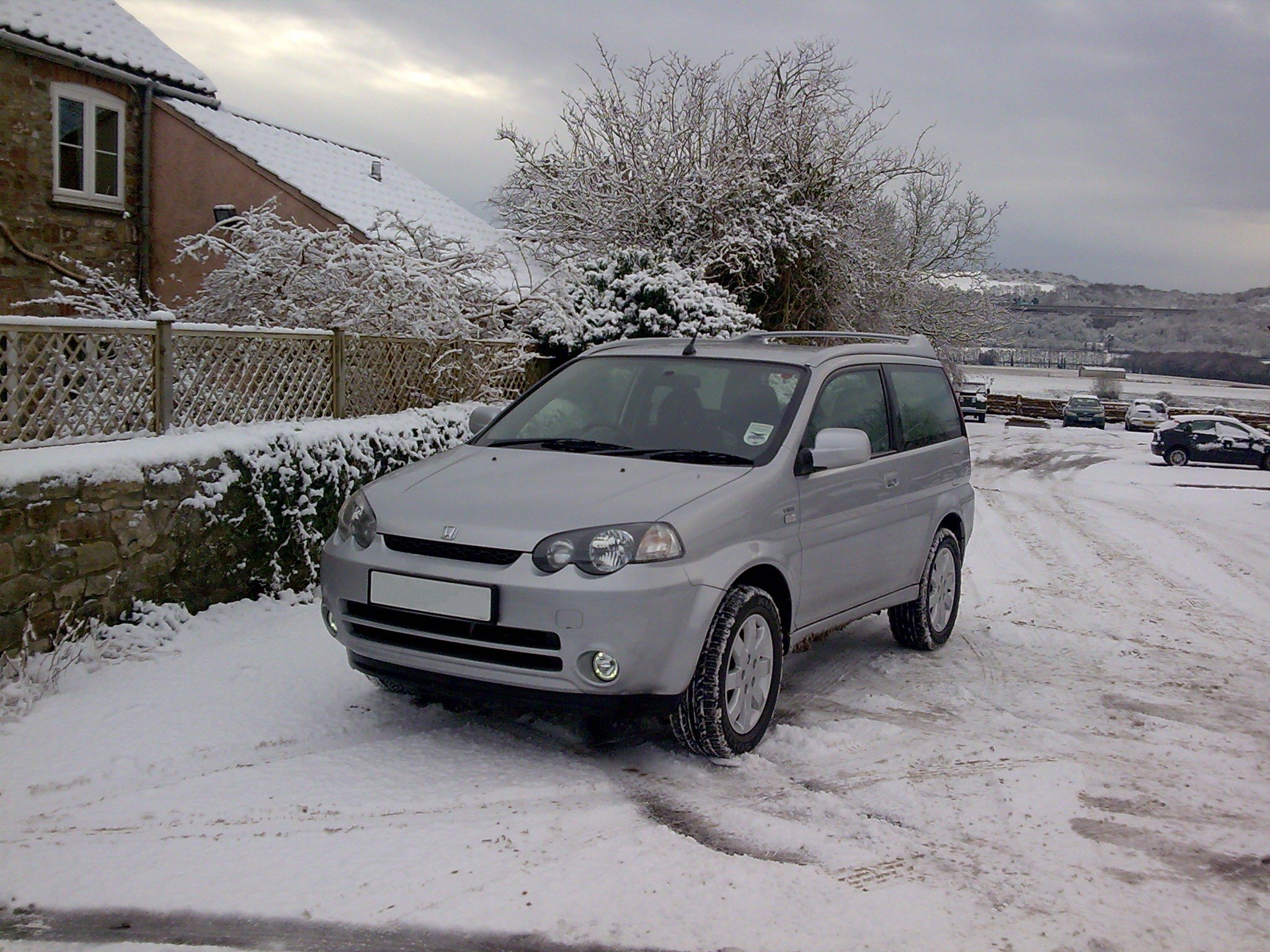 Honda HR-V VTEC 4WD 3 door facelift model, UK